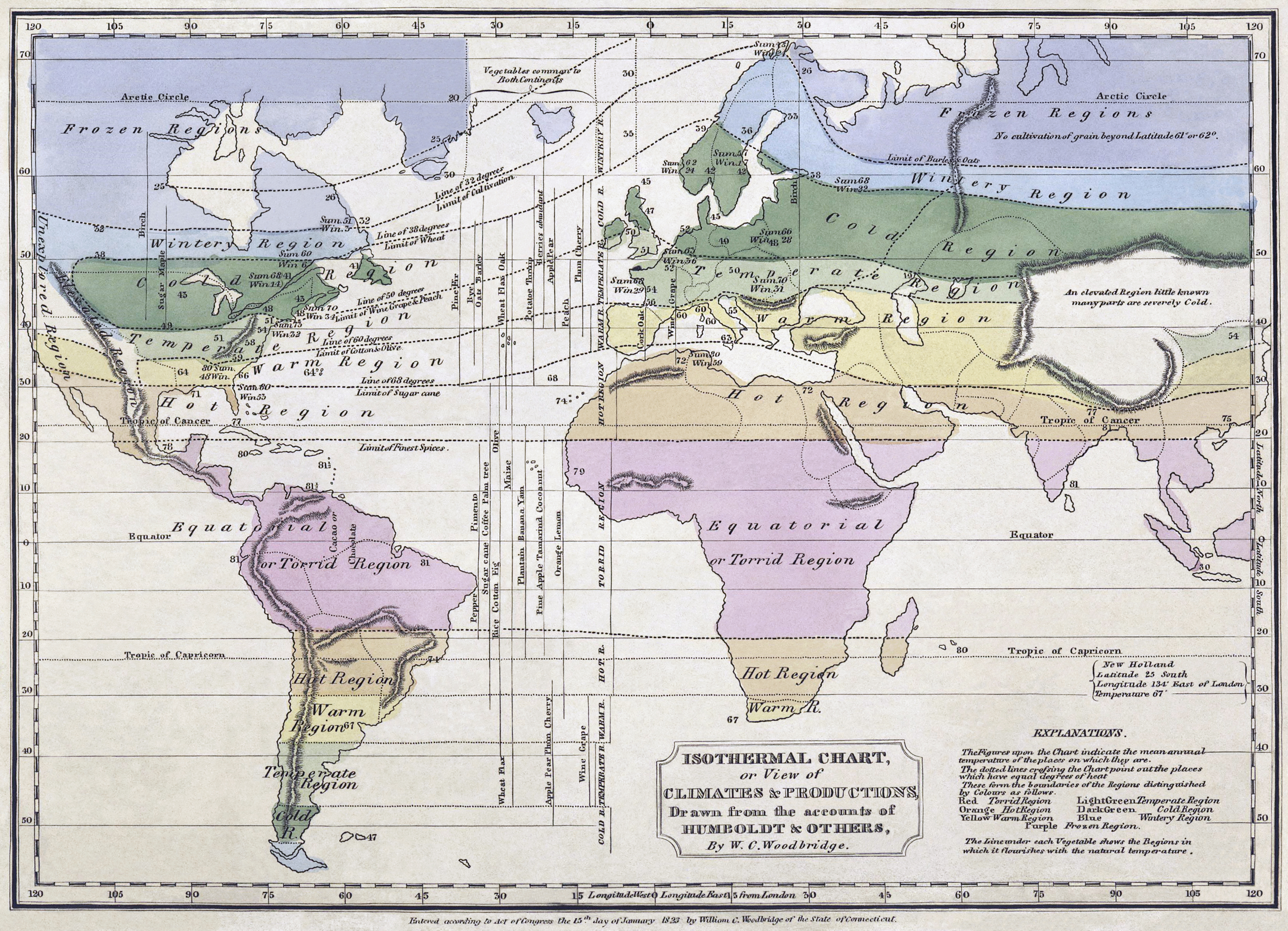 Isothermal chart, or, View of climates & productions / drawn from the accounts of Humboldt & others, by W.C. Woodbridge. Notes: Relief shown by hachures. Note 2.) "Entered according to Act of Congress the 15th day of January, 1823, by William C. Woodbridge of the state of Connecticut." Note 3.) Covers most of the world; does not cover northwestern North America, northeastern Asia, Australia, polar regions, or most of the Pacific Ocean. Note 4.) Includes notes. Note 5.) National Endowment for the Humanities Grant for Access to Early Maps of the Middle Atlantic Seaboard. Note 6.) Prime meridian: London.